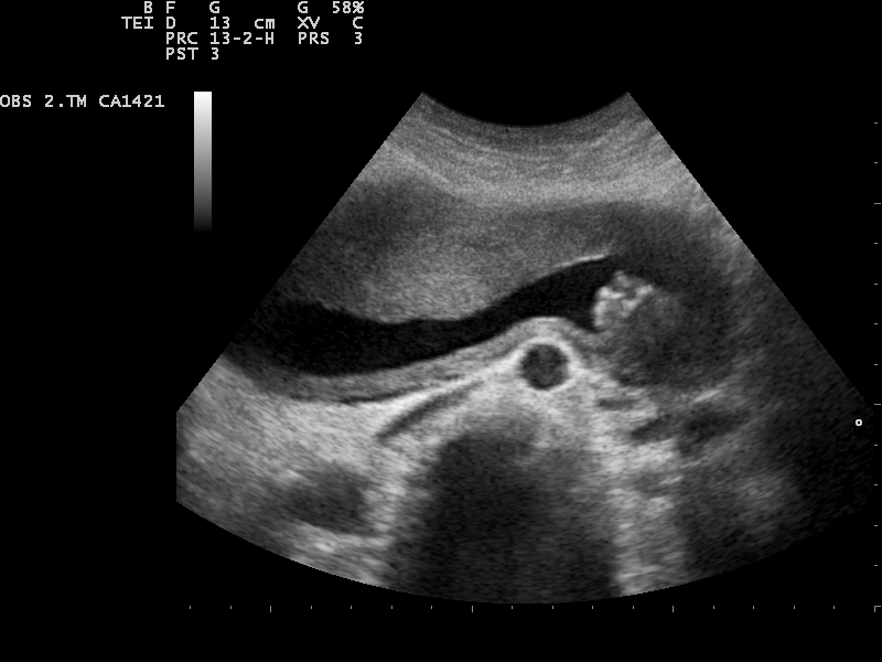 Medical ultrasound image. Slit shaped inferior vena cava. Vena cava is compressed by overlying contents of pregnancy. Provided as-is. Please feel free to categorise, add description, crop.